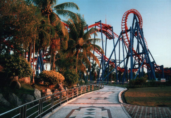 Roller coaster in Jerudong Park Playground, Brunei